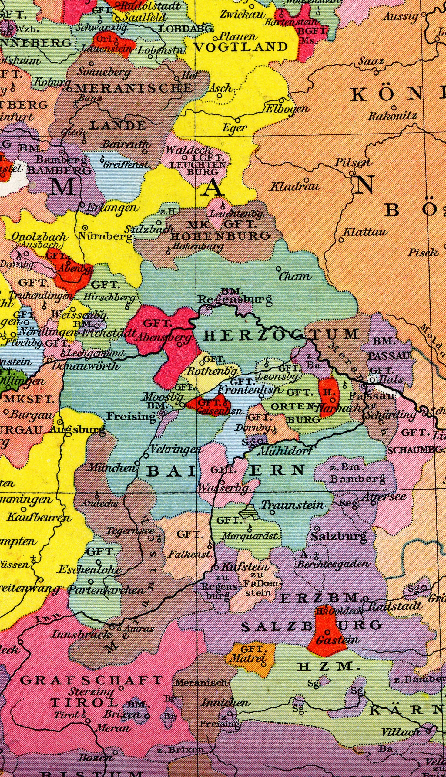 Location of the Duchy of Merania at about 1250.